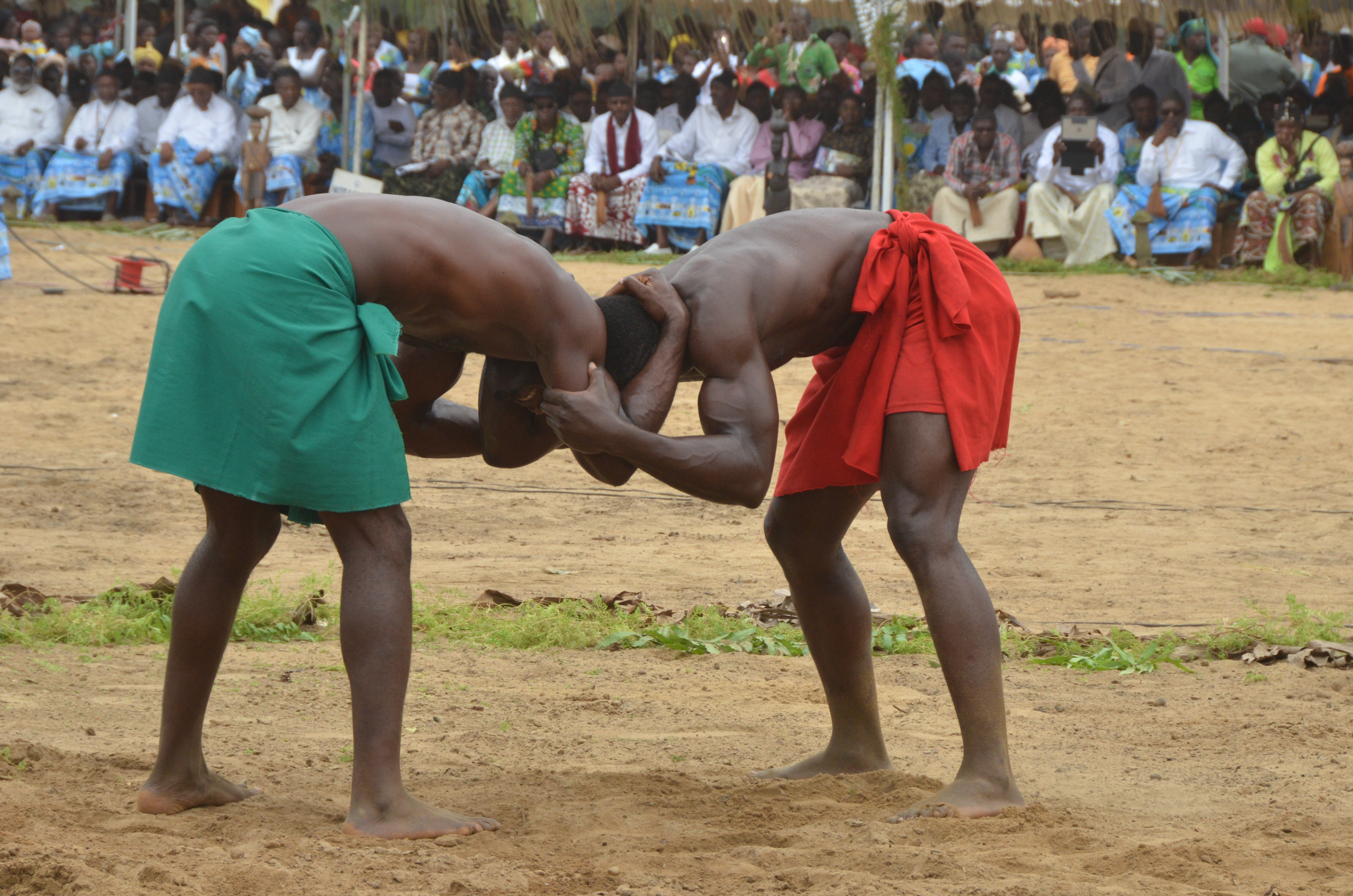 This is an image with the theme "Play" from: Cameroon